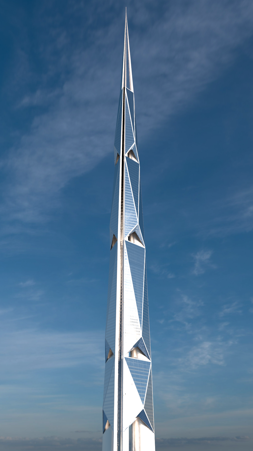 3D model of the "India Tower", done with Blender 2.79